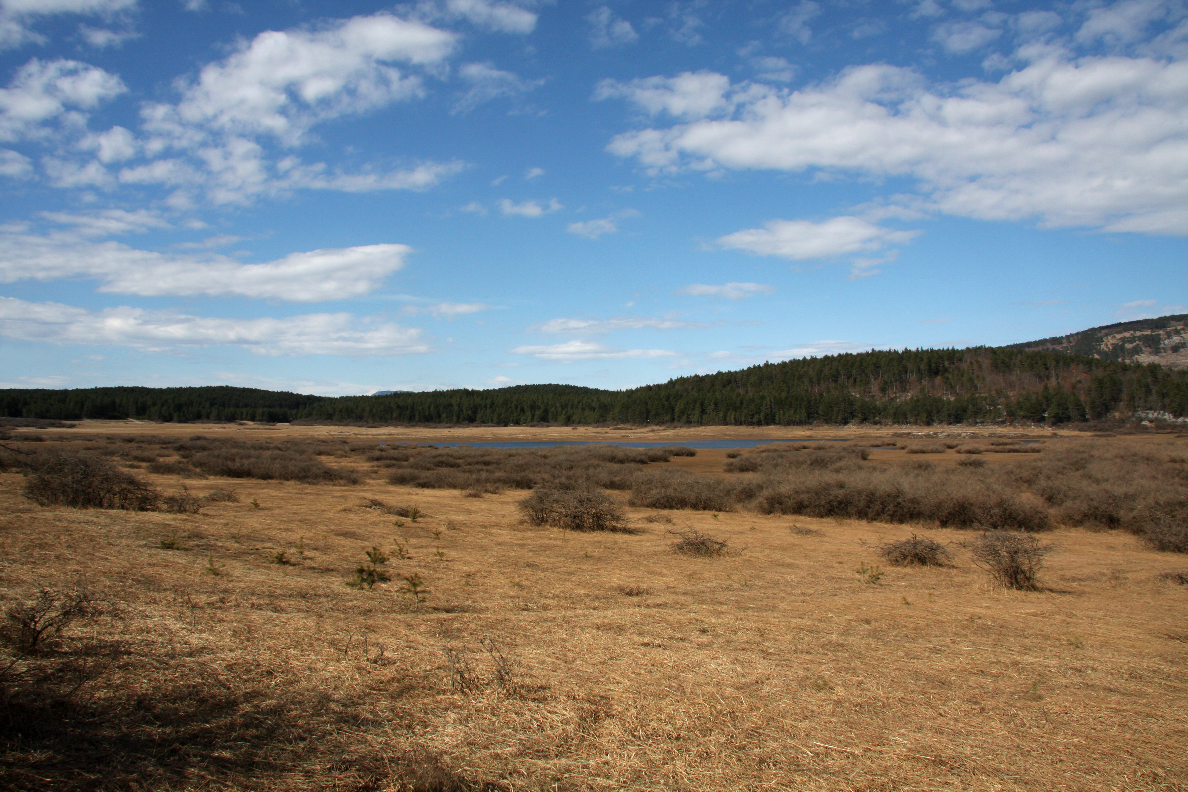 A view towards NW over intermittent Lake Palško in the beginning of spring. The water has already largely receded; the water level is at the tree line when the lake is full.